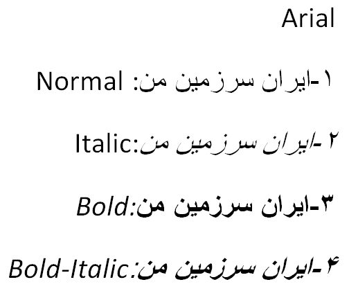 Arial font that uses Italic style